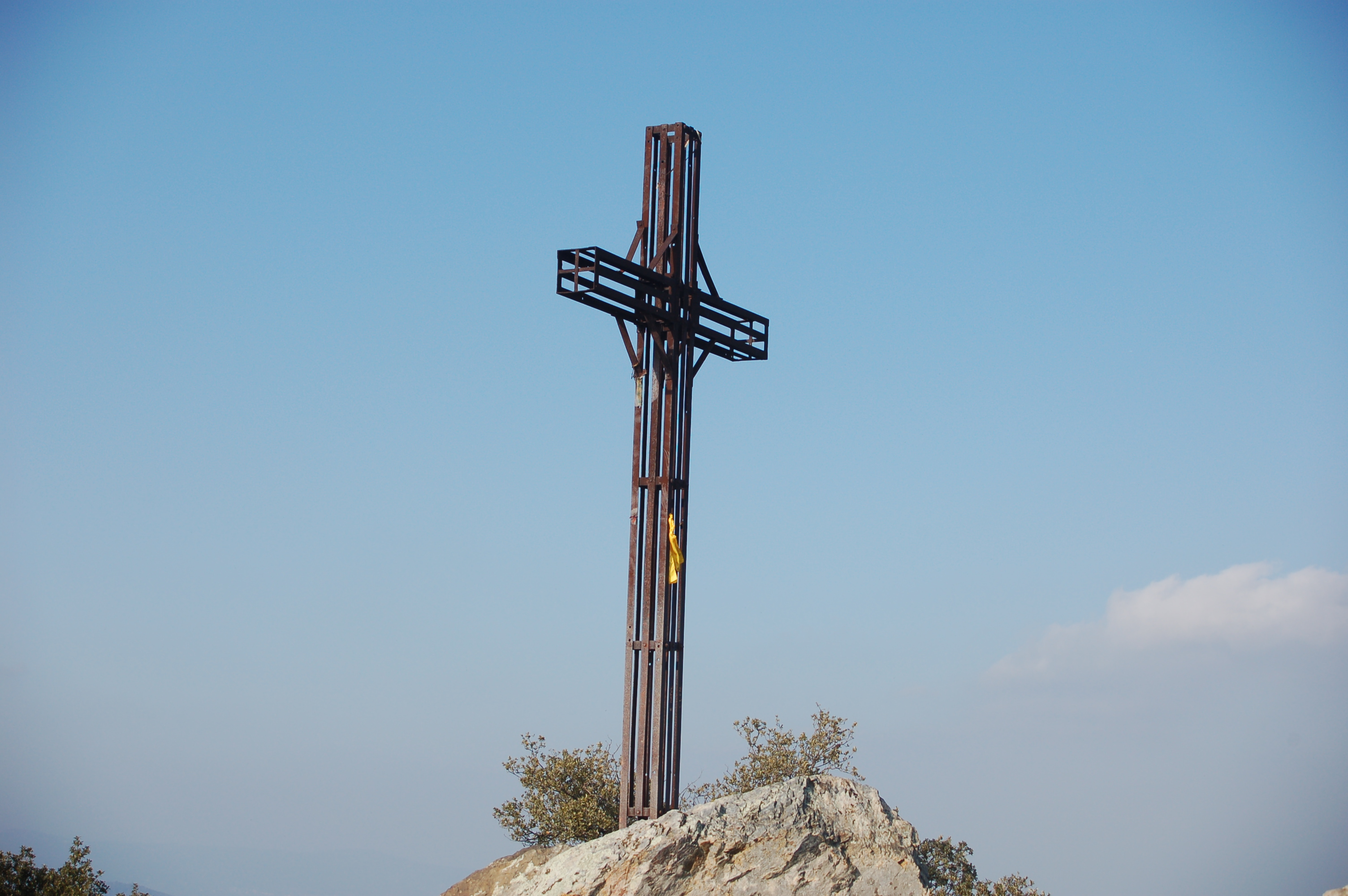 The cross at the top of Fenouillet.